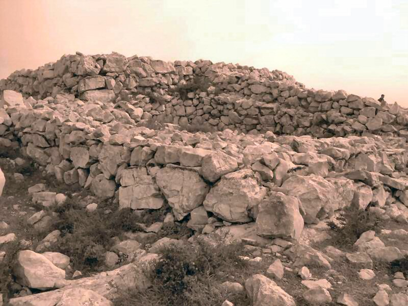 The ramp leading up to the altar on Mount Ebal